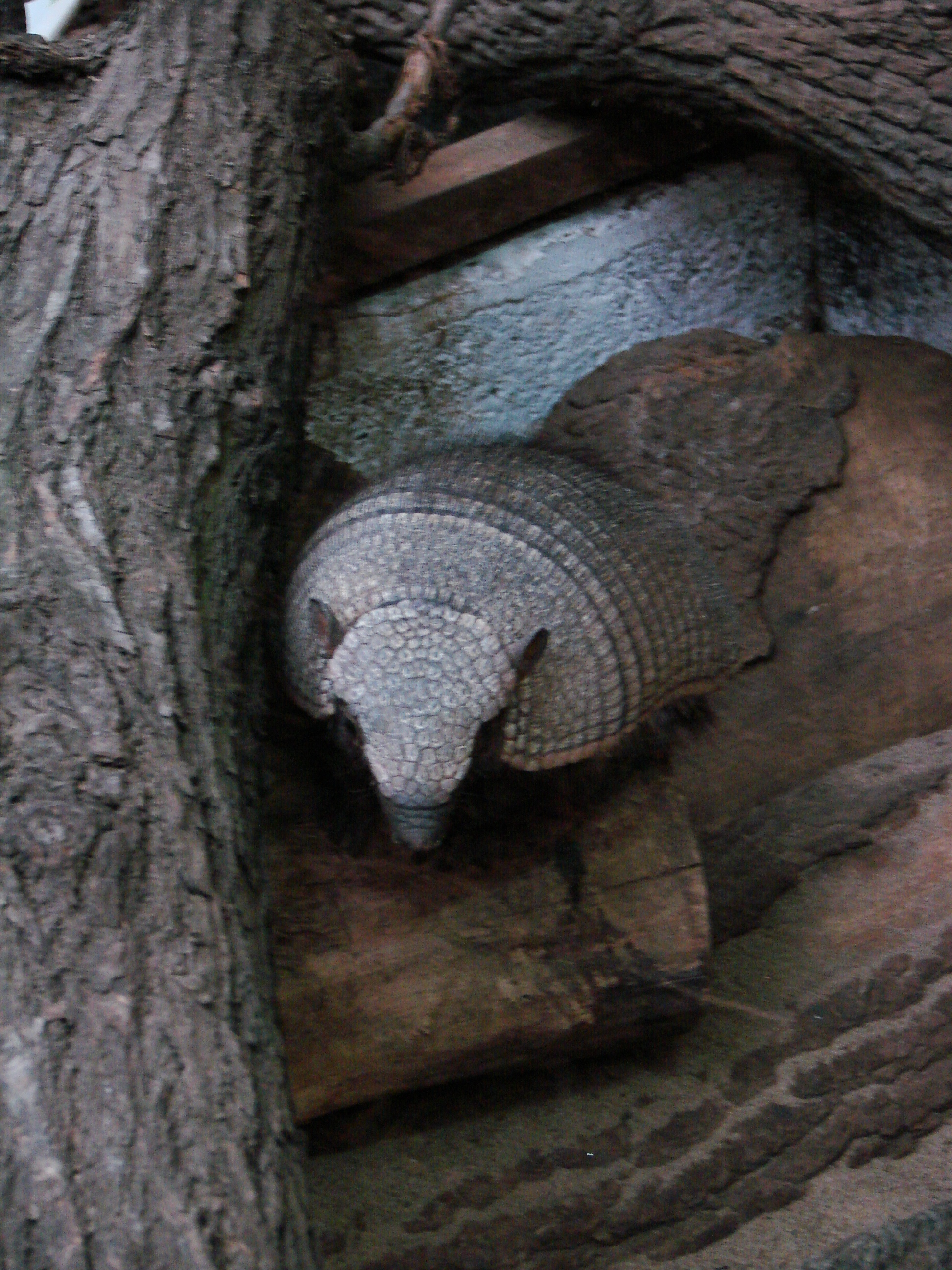 Picture taken in the zoo of Wrocław (Poland): Chaetophractus villosus (Desmarest, 1804)